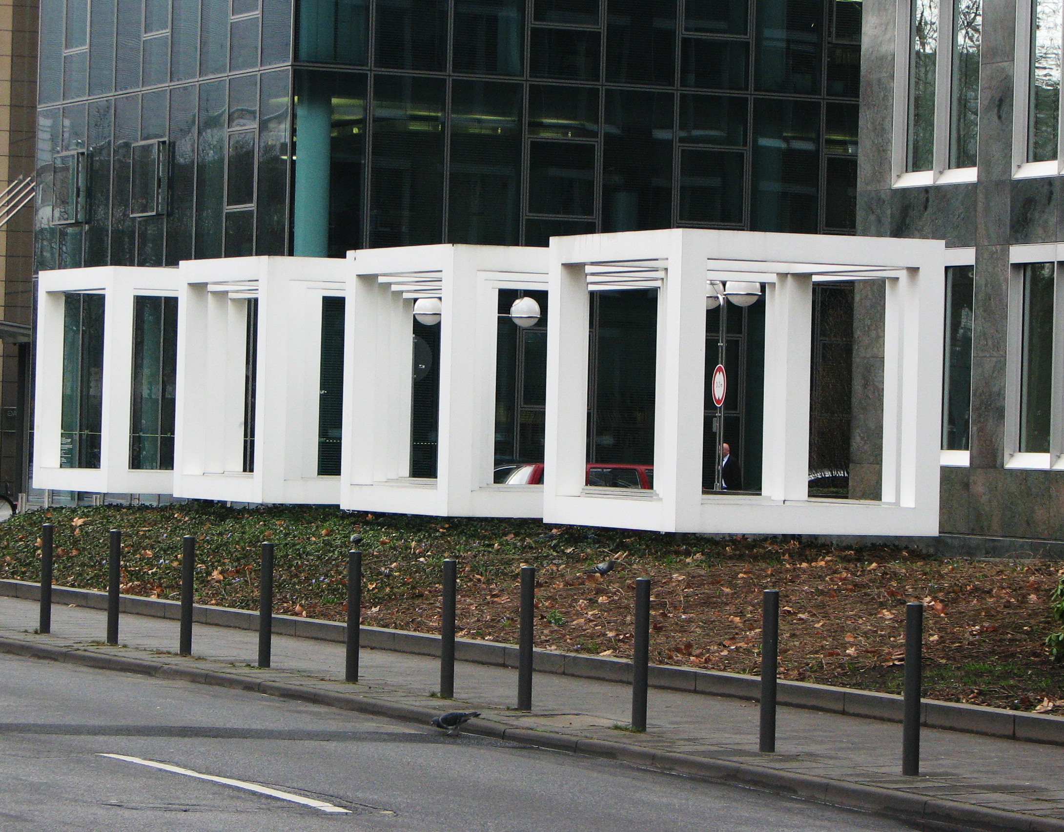 Sculpture White Cubes by Sol LeWitt in 1991 in Frankfurt/Main, Gallus-Anlage 7, Germany